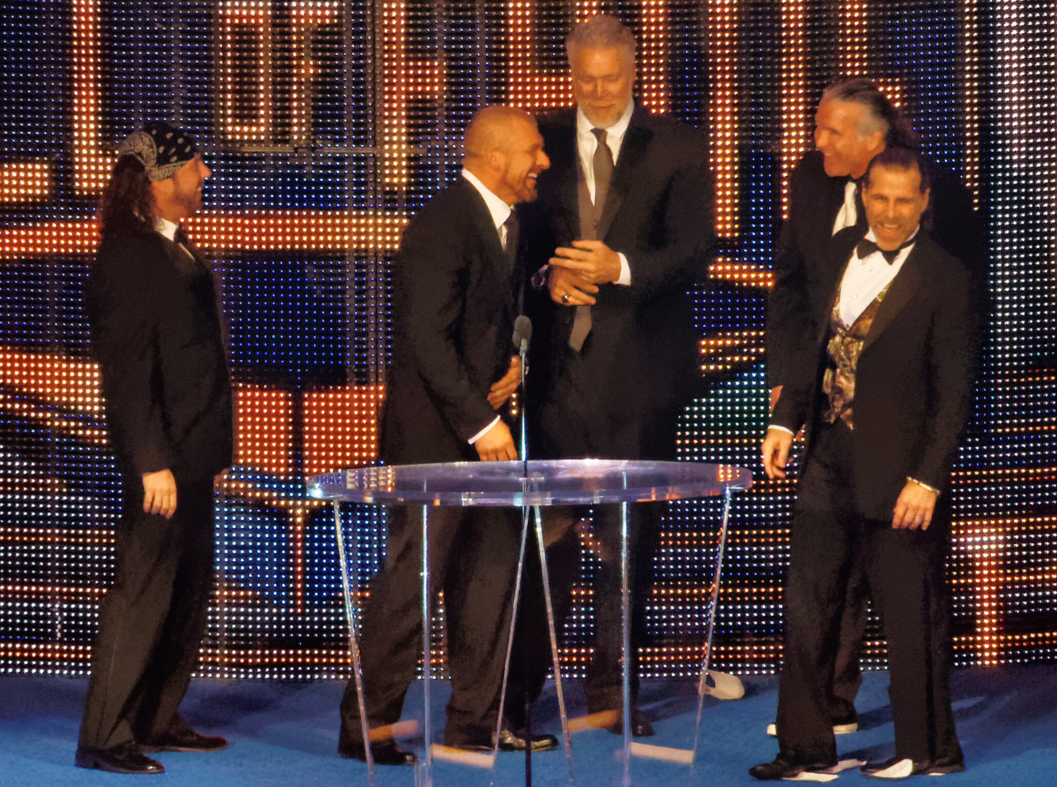 WWE Hall Of Fame 2015